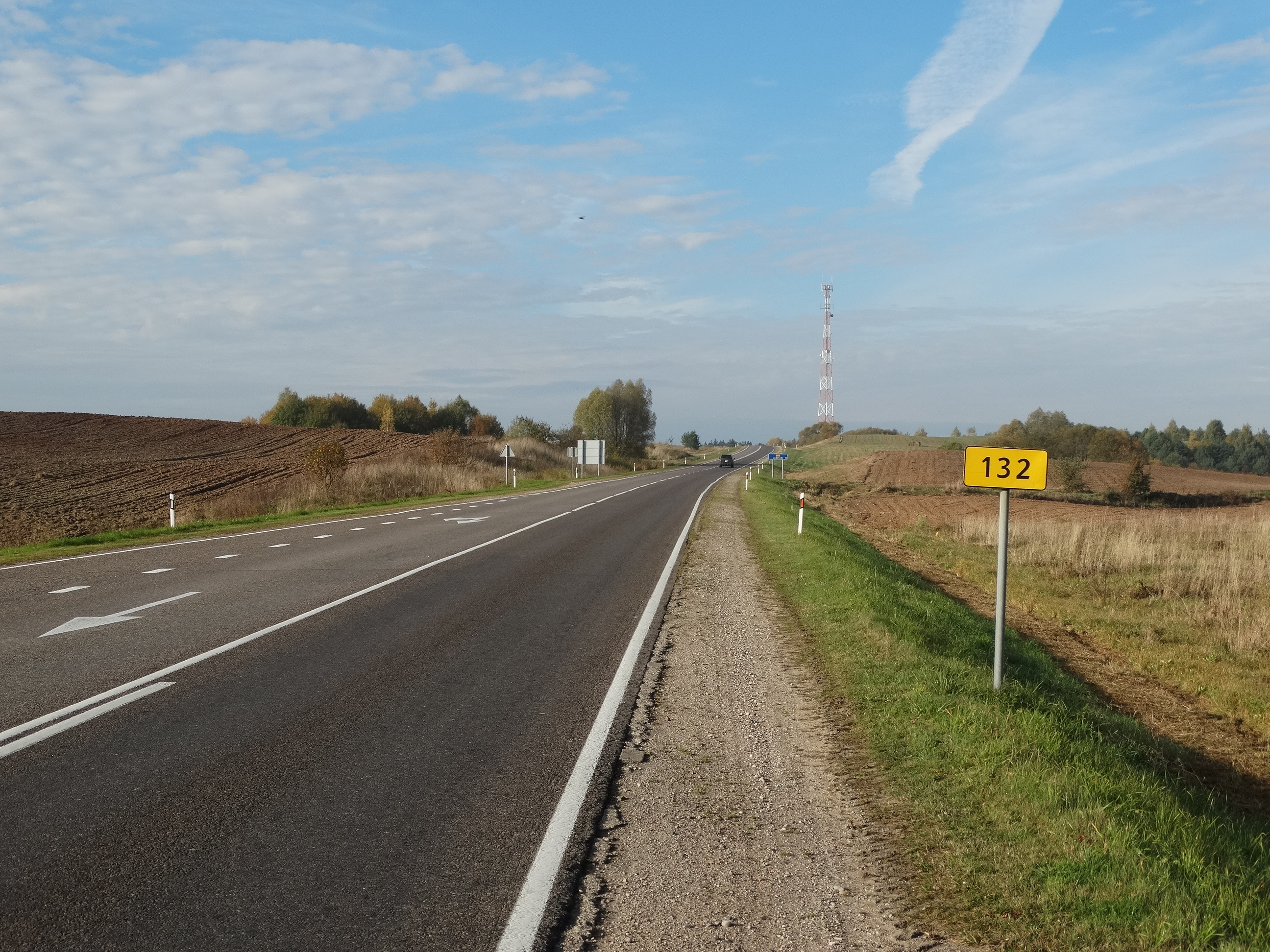 Regional road 132 near Seirijai, Lithuania